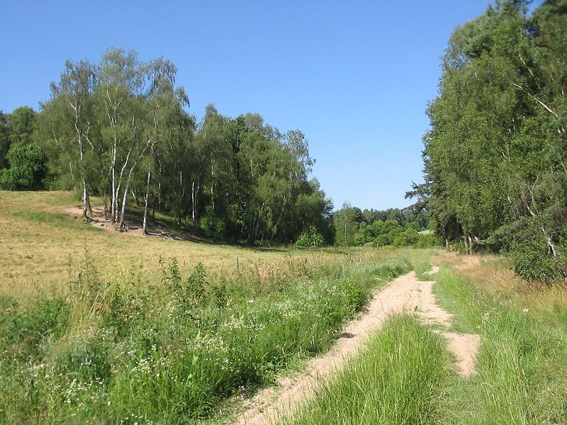 Periglacial arroyo „Steile Kieten“, typical in landscape Fläming (called: „Rummel“), nearby Preußnitz. The village Preußnitz is a part of the village Kuhlowitz, an incorporated part of the town Belzig in Brandenburg, Germany.